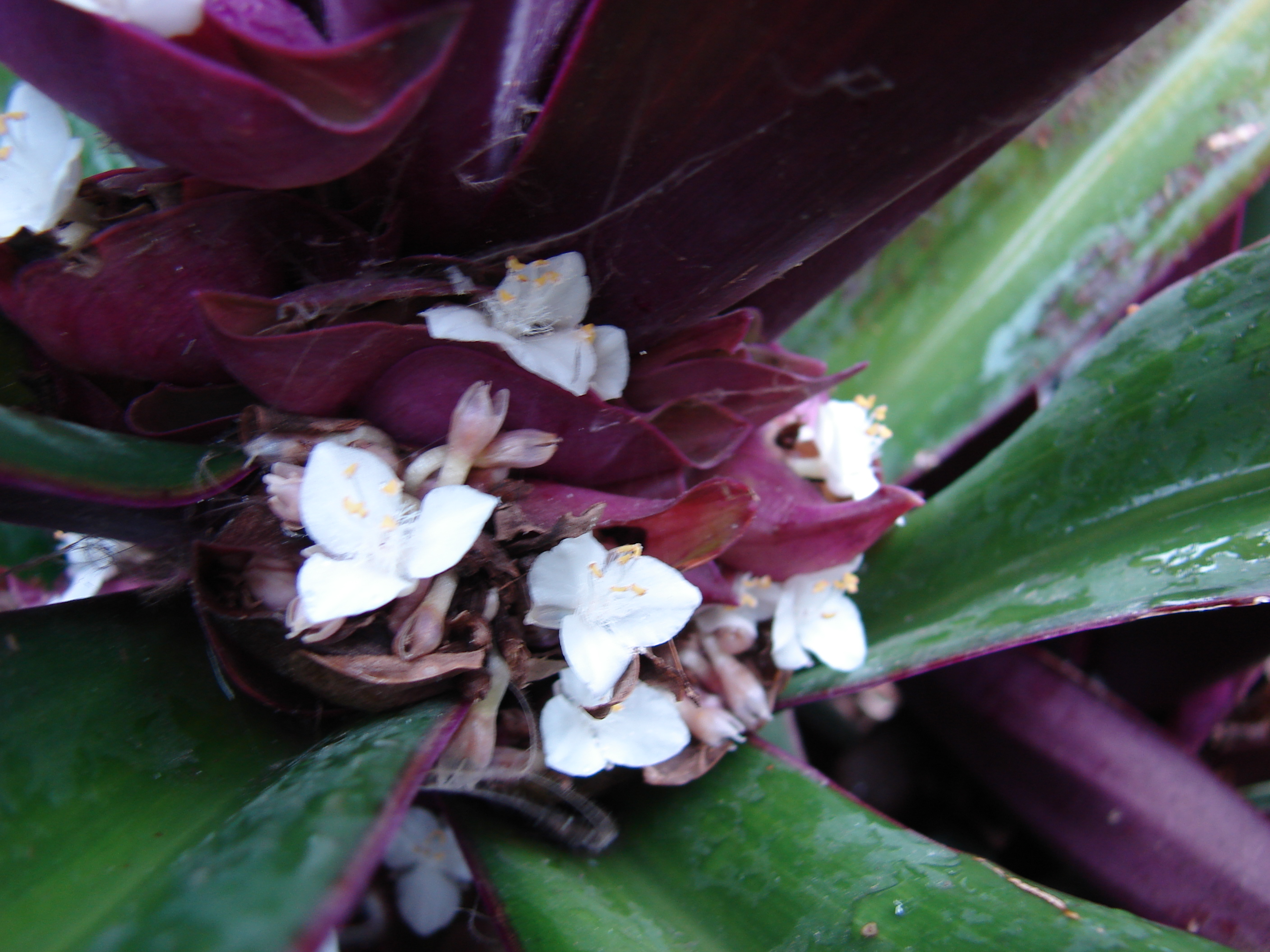 Tradescantia spathacea (flowers). Location: Midway Atoll, 4211 Commodore Ave Sand Island